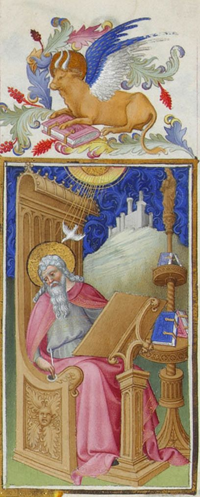 This evangelist is Matthew, in a miniature in the middle of the gospel according to Matthew, but one of the painter made a mistake : he represents the symbol of Luke, the winged ox, on the top of the miniature